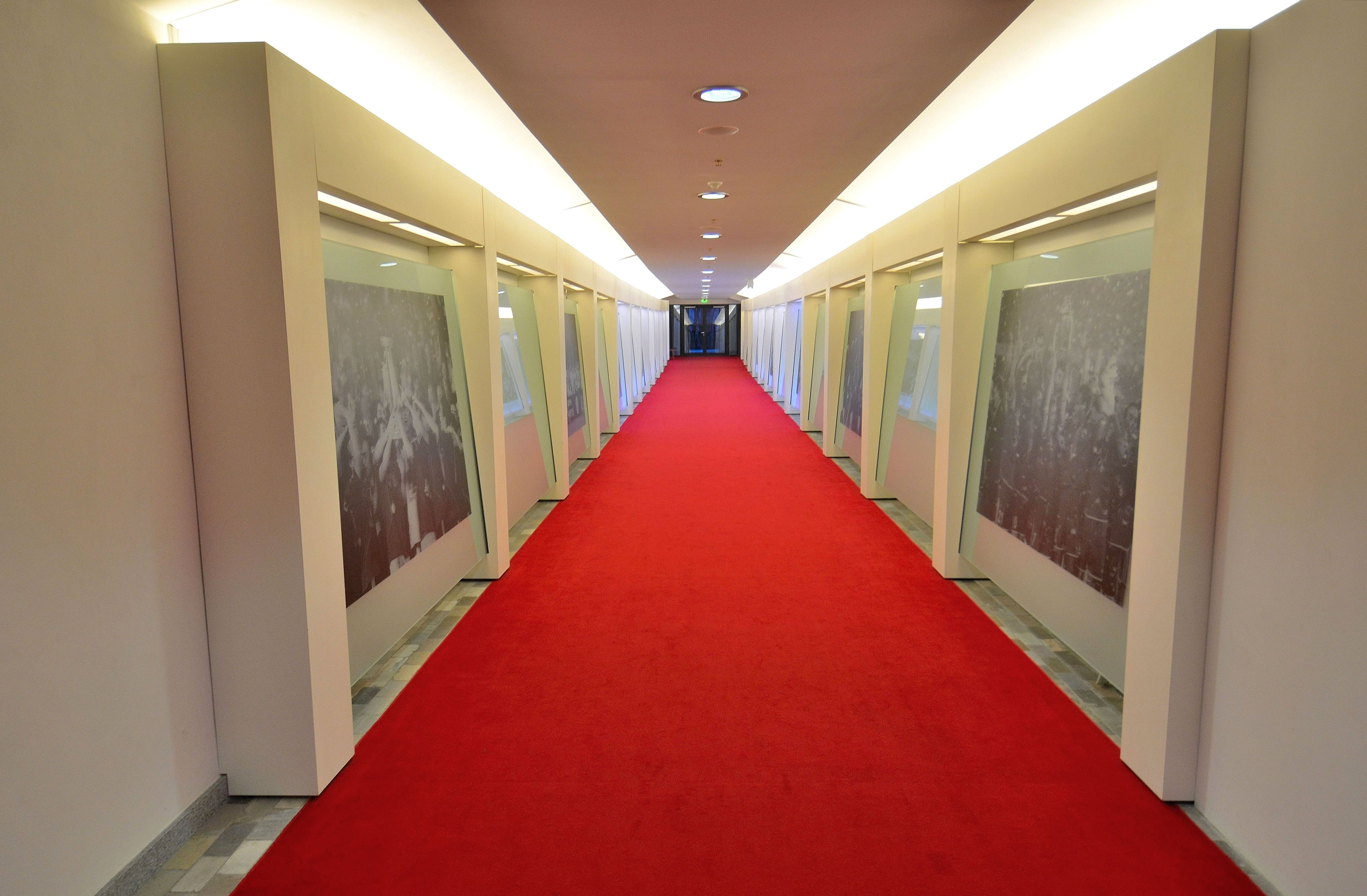 VIP Corridor at the National Stadium in Warsaw